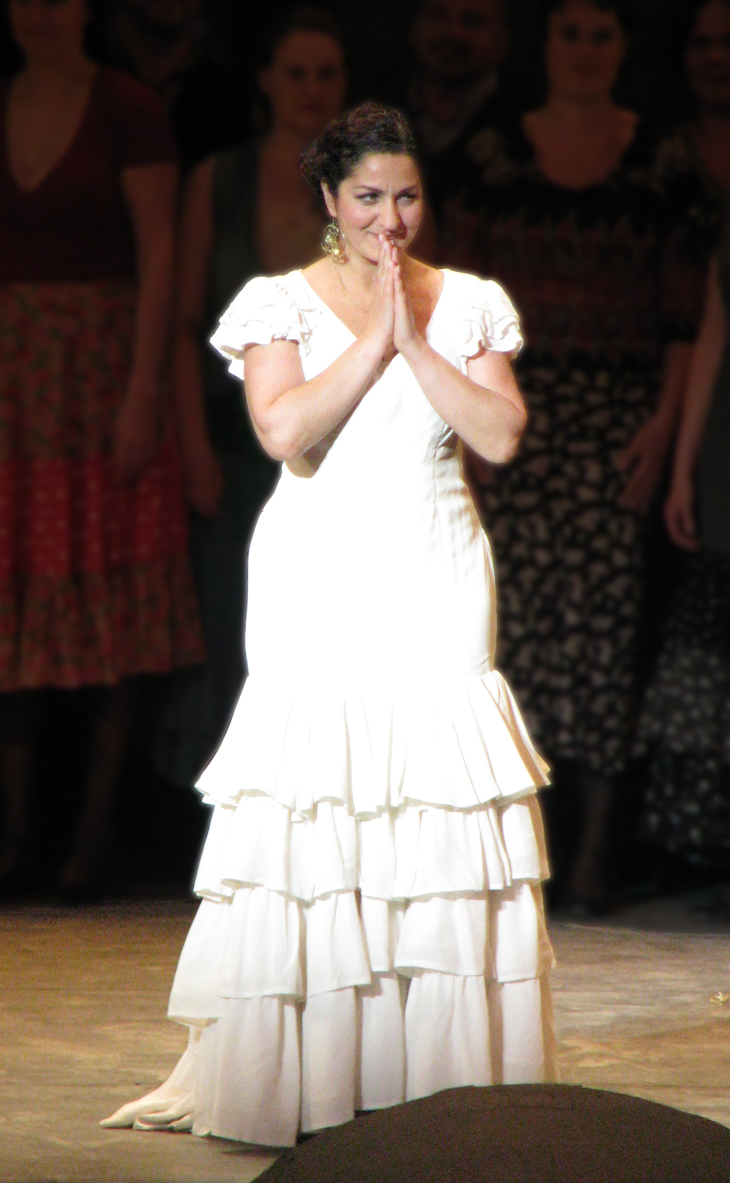 Georgian opera singer Stella Grigorian at the Savonlinna Opera Festival.